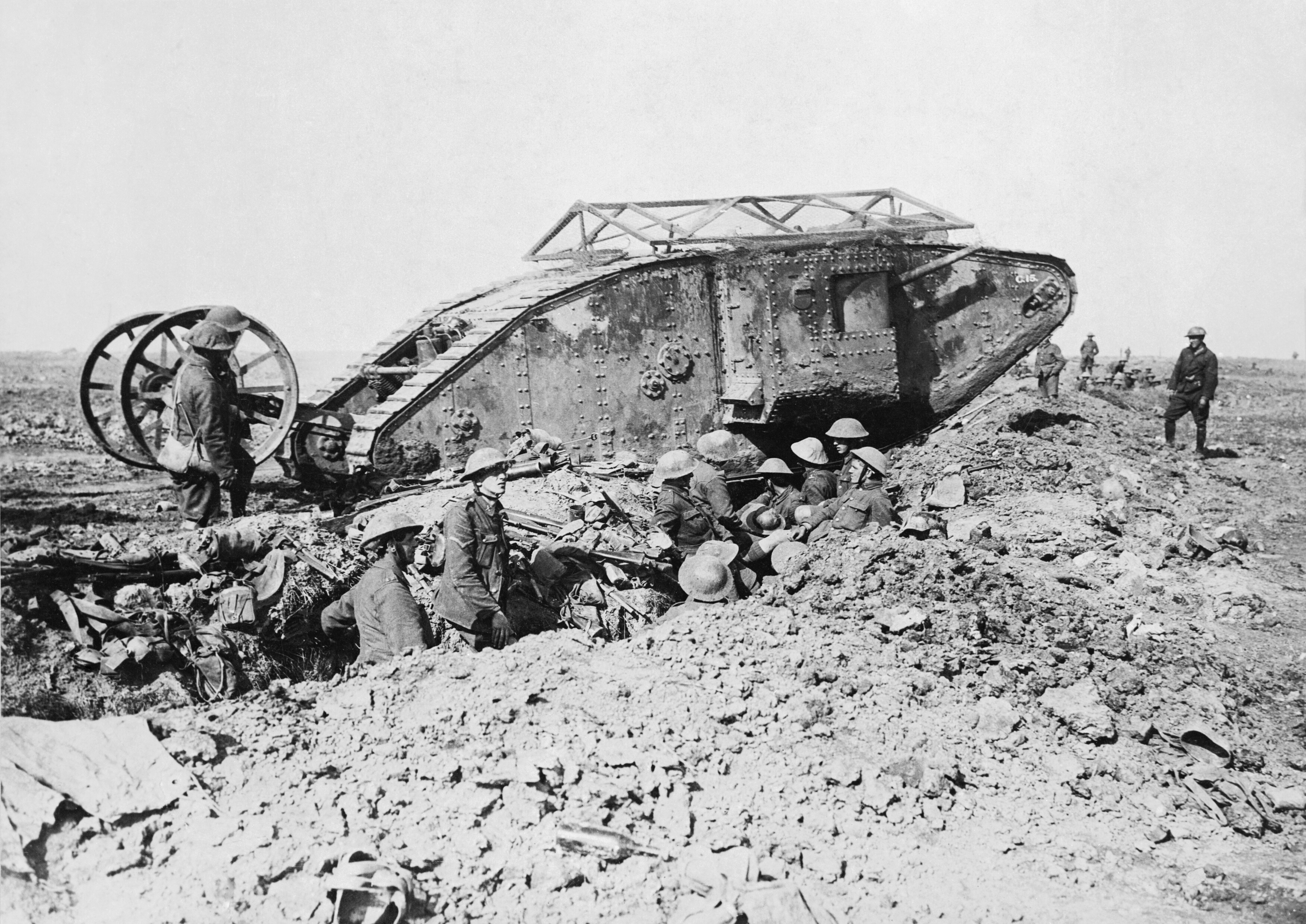 An early model British Mark I "male" tank, named C-15, near Thiepval, 25 September 1916. The tank is probably in reserve for the Battle of Thiepval Ridge which began on 26 September. The tank is fitted with the wire "grenade shield" and steering tail, both features discarded in the next models.